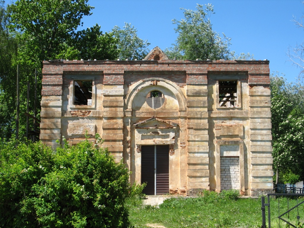 Church in Siomkau Haradok (Belarus) Царква ў Сёмкавым Гарадку ля Менску